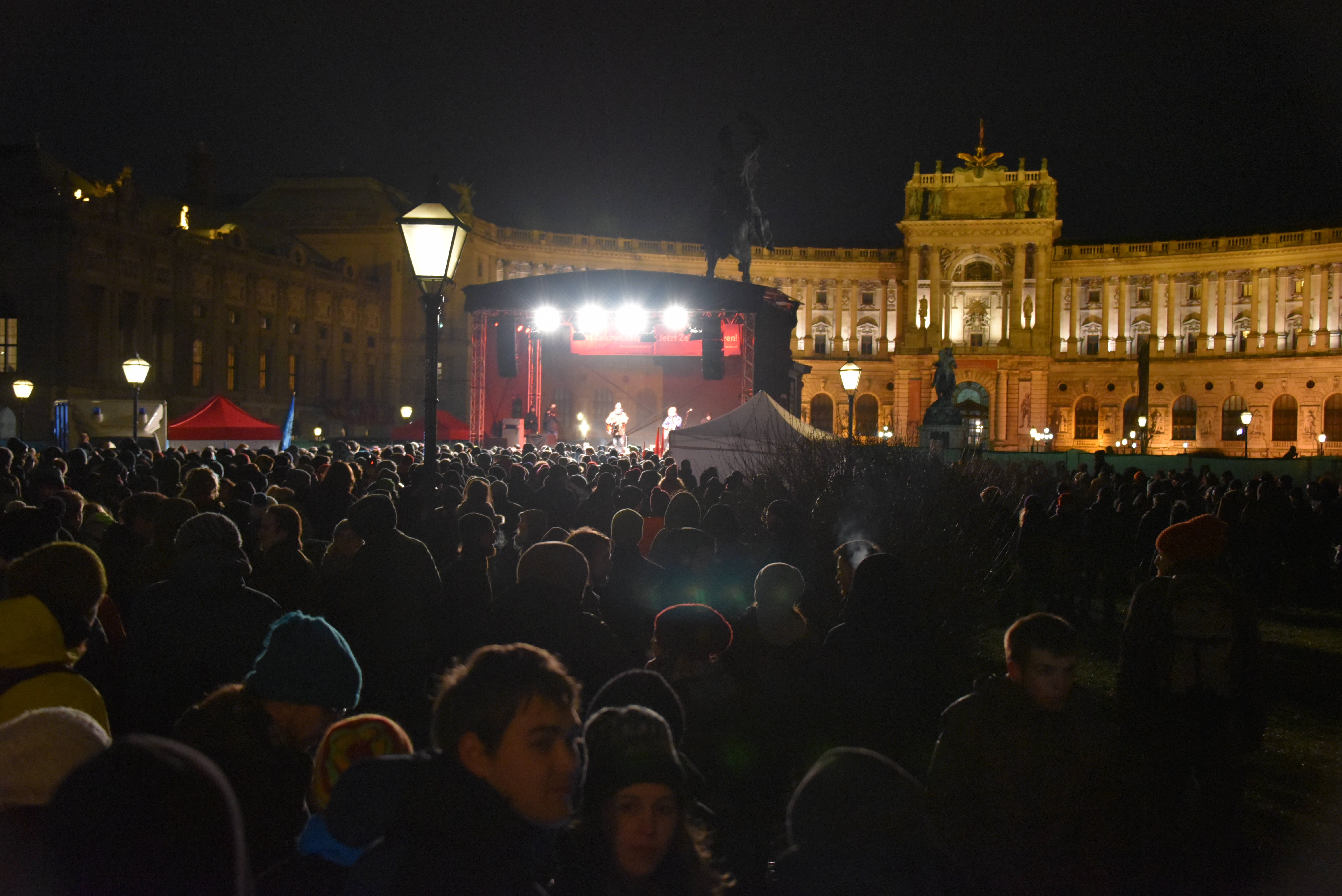 Demonstration of Jetzt Zeichen setzen! against the Akademikerball 2015, Heldenplatz, Vienna (Austria) , with Kommando Elefant